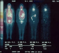 Sequence of 123-iodide total-body scintiscans of a woman after intravenous injection of 123-iodide (half-life: 13 hours); (from left) respectively at 30 minutes, and at 6, 20 and 48 hours. High and rapid concentration of radio-iodide (in white) in extra-thyroidal organs is evident in gastric mucosa of the stomach, epidermis, salivary glands, periencephalic and cerebro-spinal fluid, choroid plexus and oral mucosa. In gastric mucosa 131-iodide (half-life: 8 days) persists in scintiscans for more than 72 hours. In the thyroid, iodide-concentration is more progressive, as in a reservoir [from 1% (after 30 minutes) to 5.8 % (after 48 hours) of the total injected dose]. High iodide-concentration by the mammary gland is evident only in pregnancy and lactation. High excretion of radio-iodide is observed in the urine.